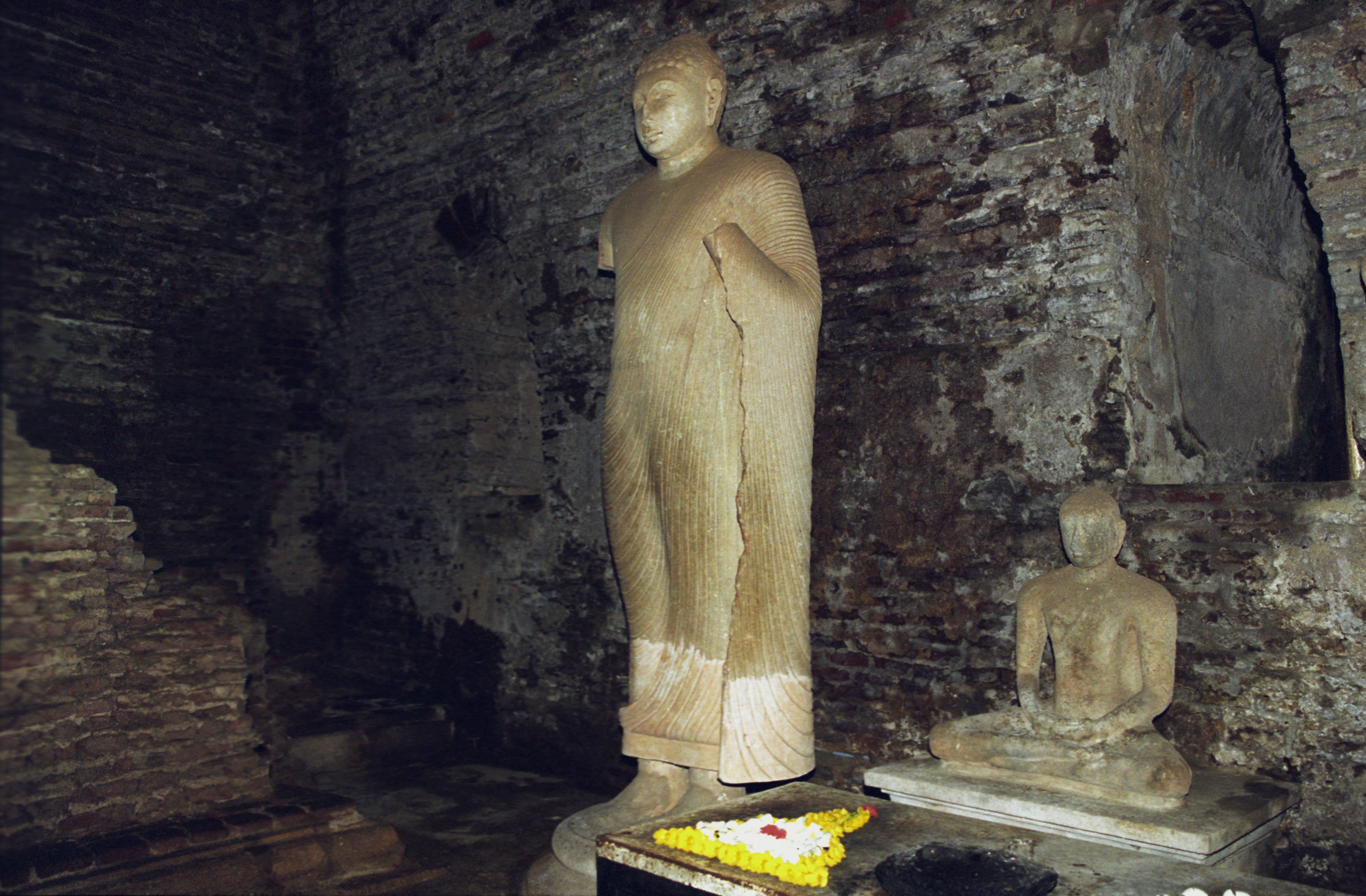 Thuparama, Polonnaruwa. Temple's interior